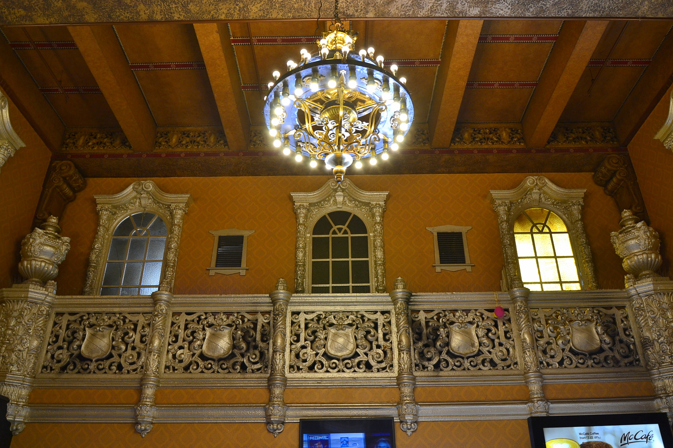 Plaza Cinema, Sydney